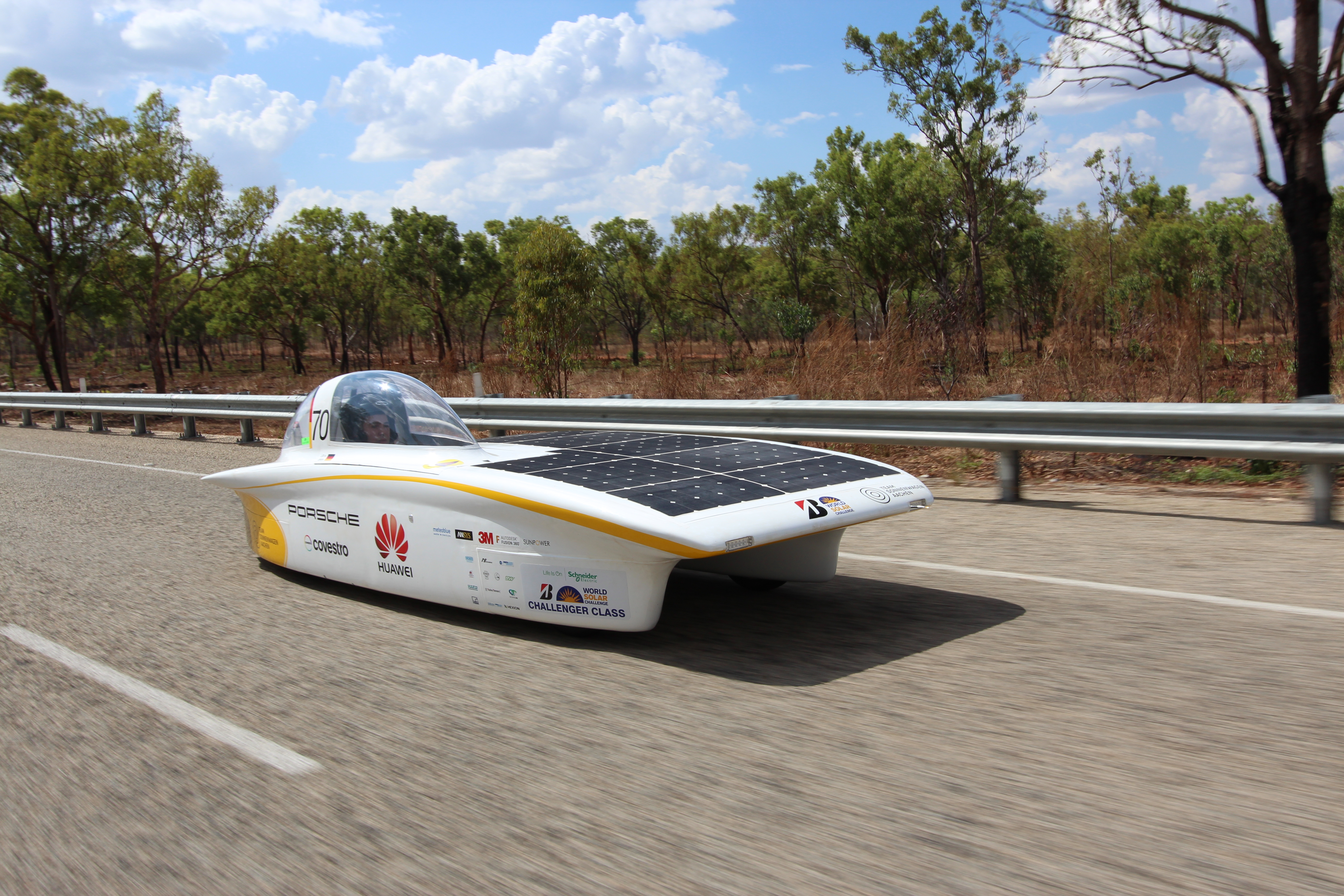 Huawei Sonnenwagen on Stuart Highway during the BWSC2017